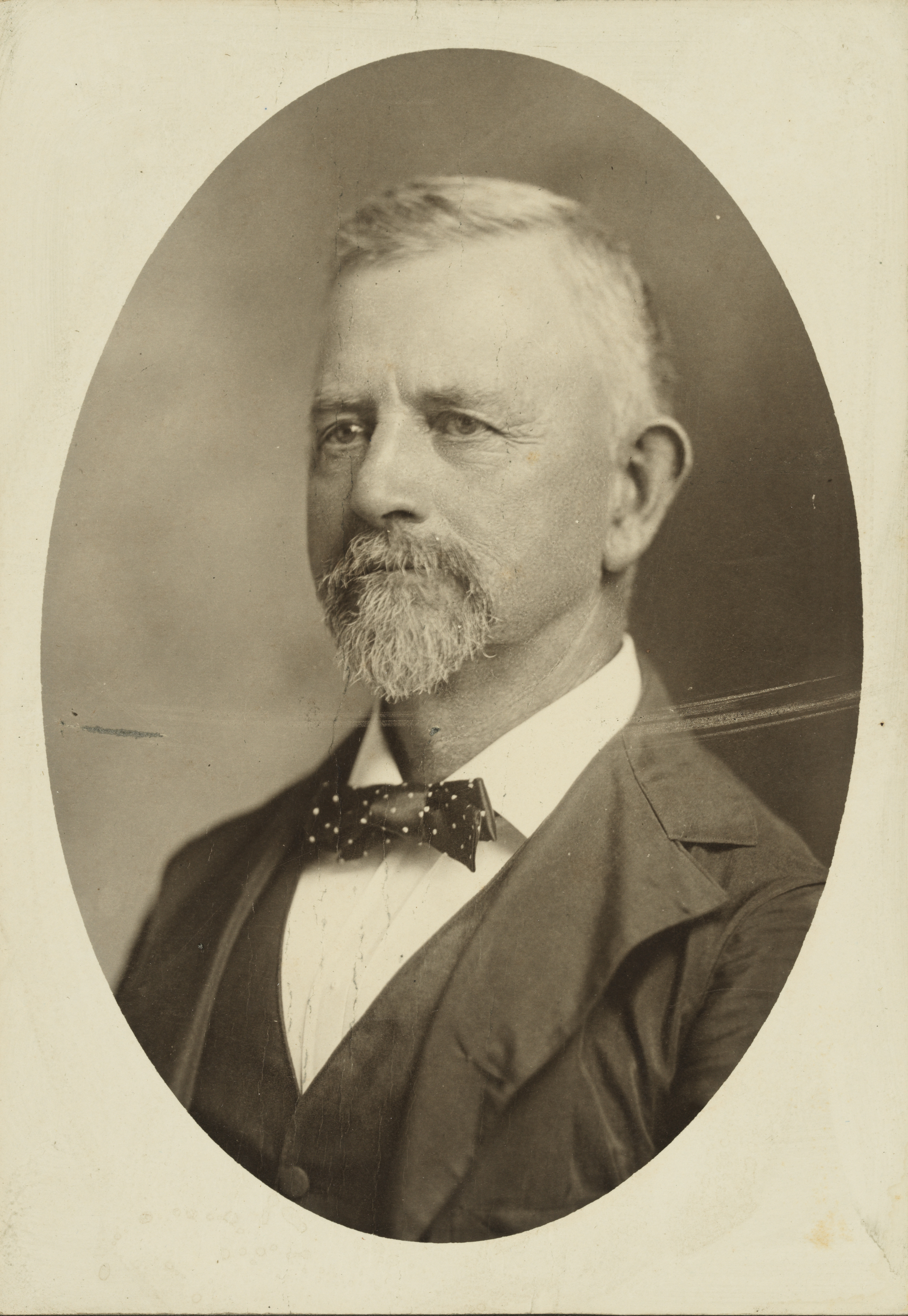 Alexander Chatham lived in Elkin, North Carolina and founded the Chatham Manufacturing Company in 1877. He was a veteran of the American Civil War.